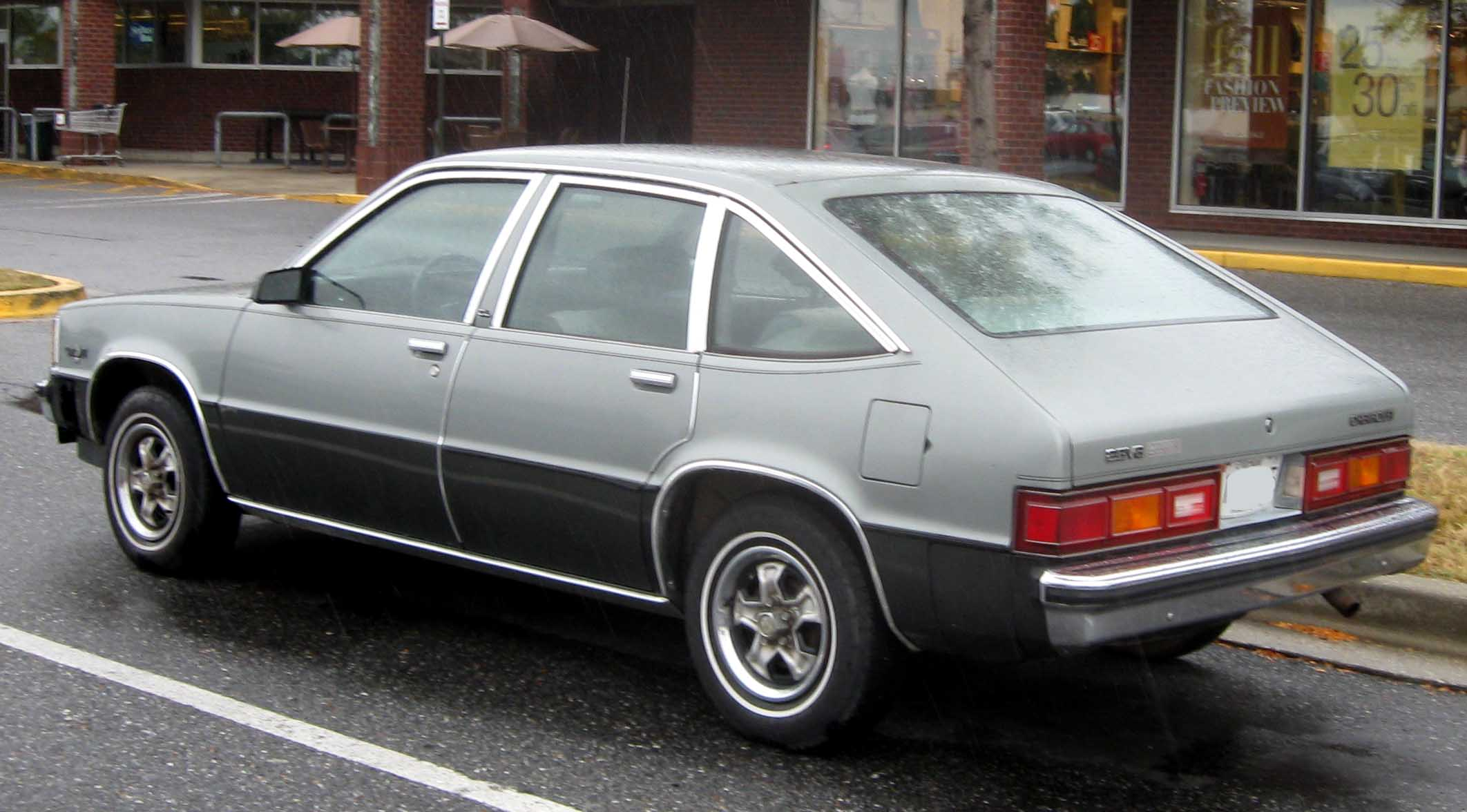 Chevrolet Citation II photographed in Clinton, Maryland, USA.